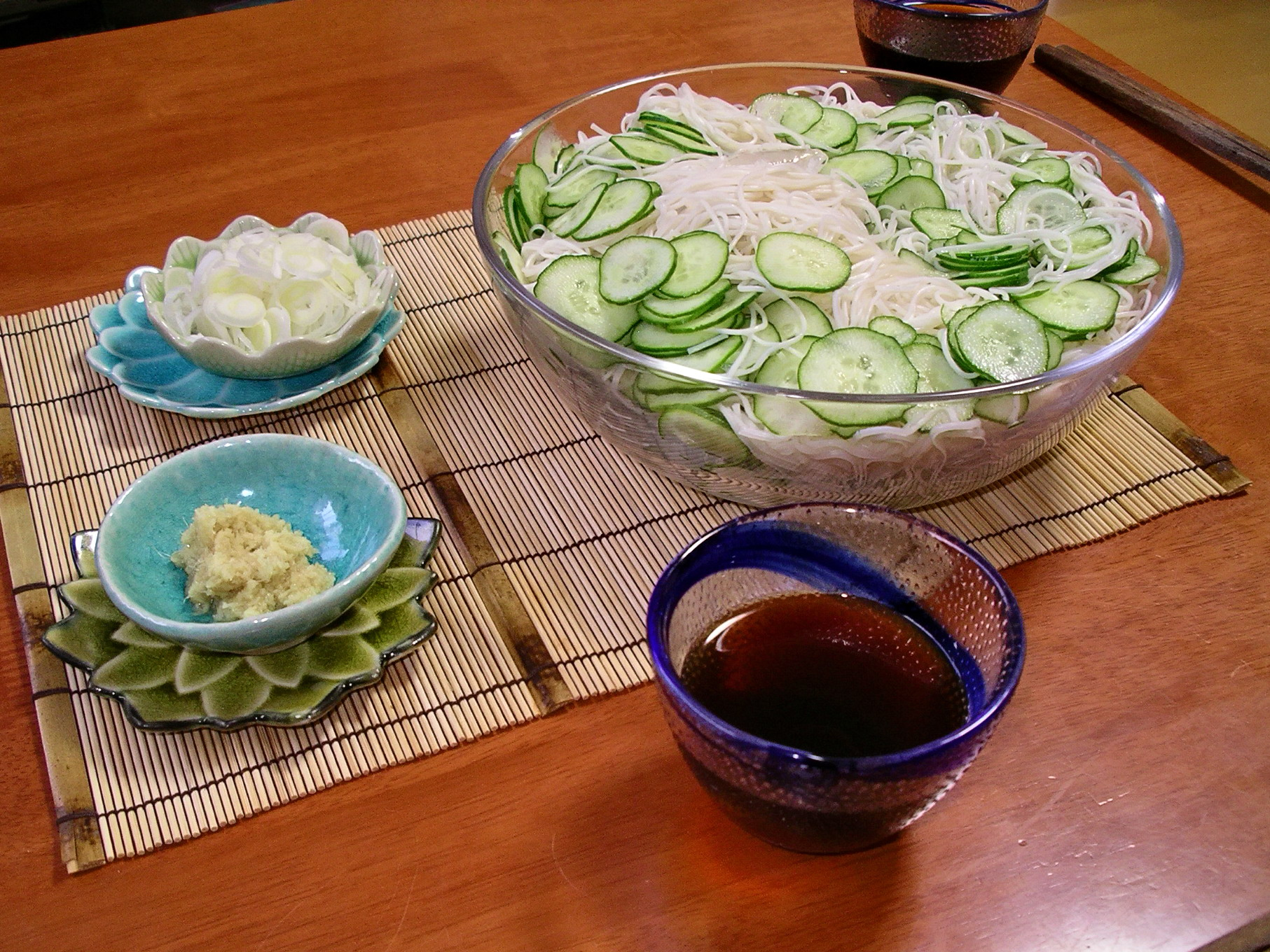 Blue Lotus夏だ！ (Summer is here!)